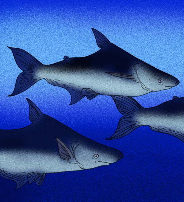 Reconstruction of the extinct catfish Cetopangasius chaetobranchus, from the Miocene of Thailand.